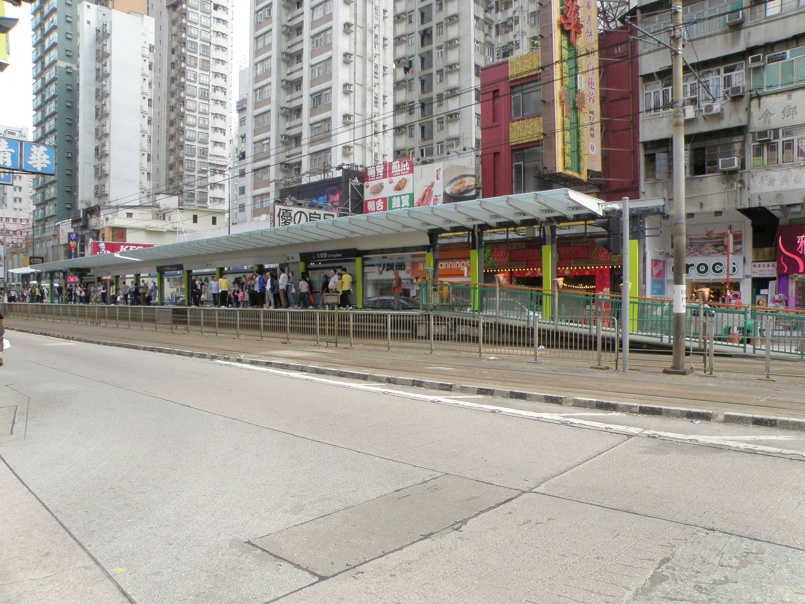 Tai Tong Road Stop in Yuen Long, Hong Kong.